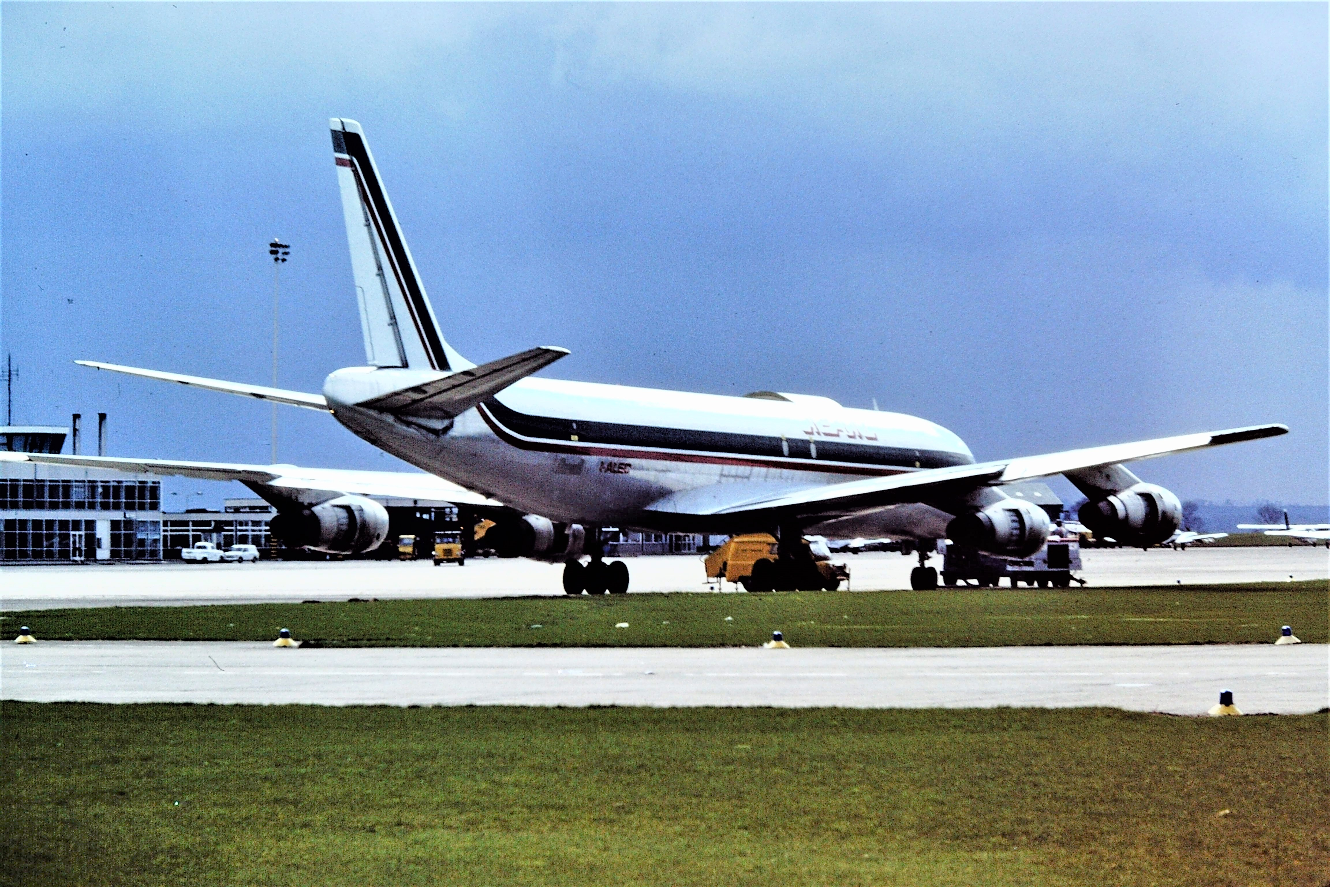 I-ALEC DC8-54F Aeral East Midlands Airport 12-04-1979